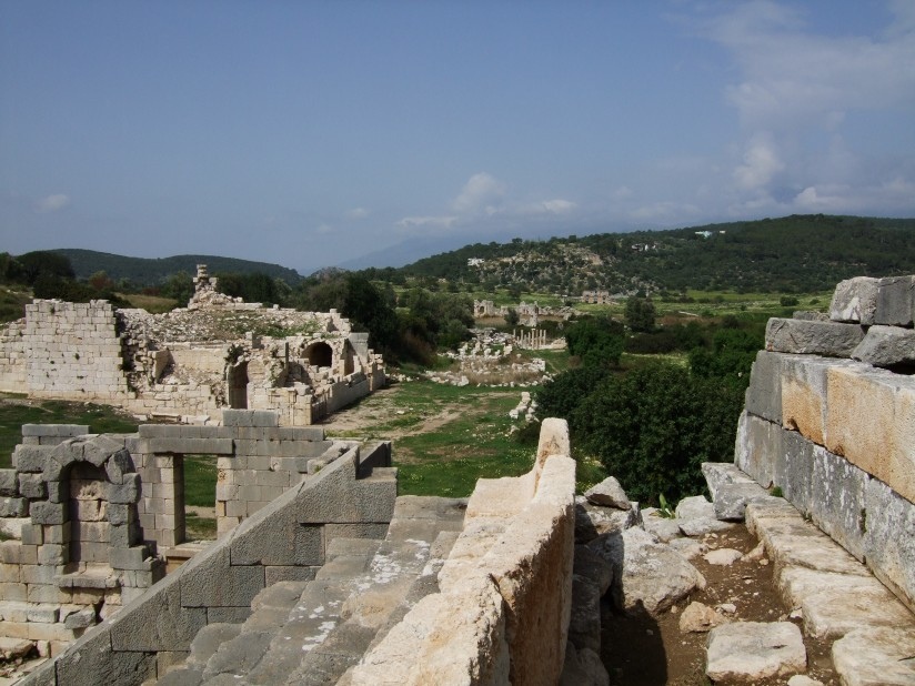 View of Patara Ruins from the theatre